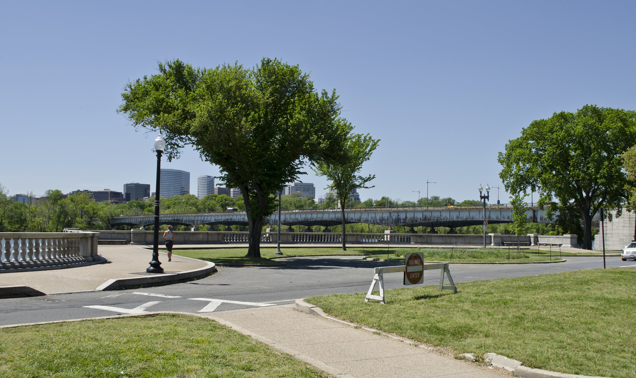 Looking west-northwest across the Rock Creek and Potomac Parkway at the former terminus of Constitution Avenue NW in Washington, D.C., in the United States. The small traffic circle and granite terrace with balustrade beyond it form the terminus. The Theodore Roosevelt Memorial Bridge can be see in the background. Constitution Avenue NW existed only between 3rd and 15th Streets NW from the city's inception in 1791 to 1871. Between 1871 and 1873, the city covered over the Tiber Creek estuary and built the street on top of it west to Virginia Avenue NW. Between 1881 and 1890, the city dredged the Potomac River and reclaimed the land that now constitutes West Potomac Park (for use as a levee). Constitution Avenue NW was then extended through the park to 23rd Street NW. When Arlington Memorial Bridge was authorized for construction in 1926, Congress ordered that "B Street" be extended to the Potomac River and widened into a ceremonial gateway for the city. In 1931, Congress changed the name of "B Street" to Constitution Avenue. A granite terrace and small traffic circle was constructed on the shores of the Potomac to form the western terminus of the street. In the 1950s, Congress authorized construction of the Theodore Roosevelt Memorial Bridge, and ordered that the bridge connect with Interestate-66 (then being built from the east toward the city). Constitution Avenue NW was torn up and the area restored to parkland west of 23rd Street NW. Raised on-ramps and off-ramps were built through the area to connect the avenue to the bridge. The terrace and traffic circle were not destroyed, however. In 1901, the Senate Parks Commission produced a master plan (the "McMillan Plan") to beautify the National Mall area in Washington, D.C. Among its requirements was that sidewalks on the Mall be lined with double-rows of American elms and beeches. Although the sidewalks were removed when Constitution Avenue was torn up in the 1950s, some of the double-rows of trees survived.